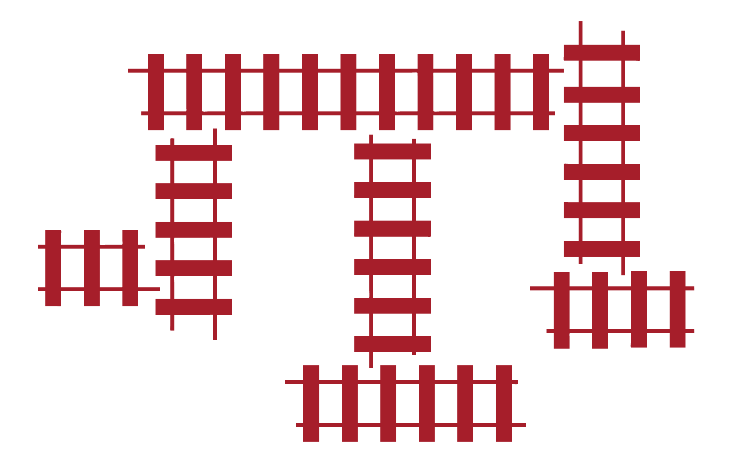 Coat of arms of Crimean Tatars (taraq tamga), stylized in the context of deportation of Crimean Tatars